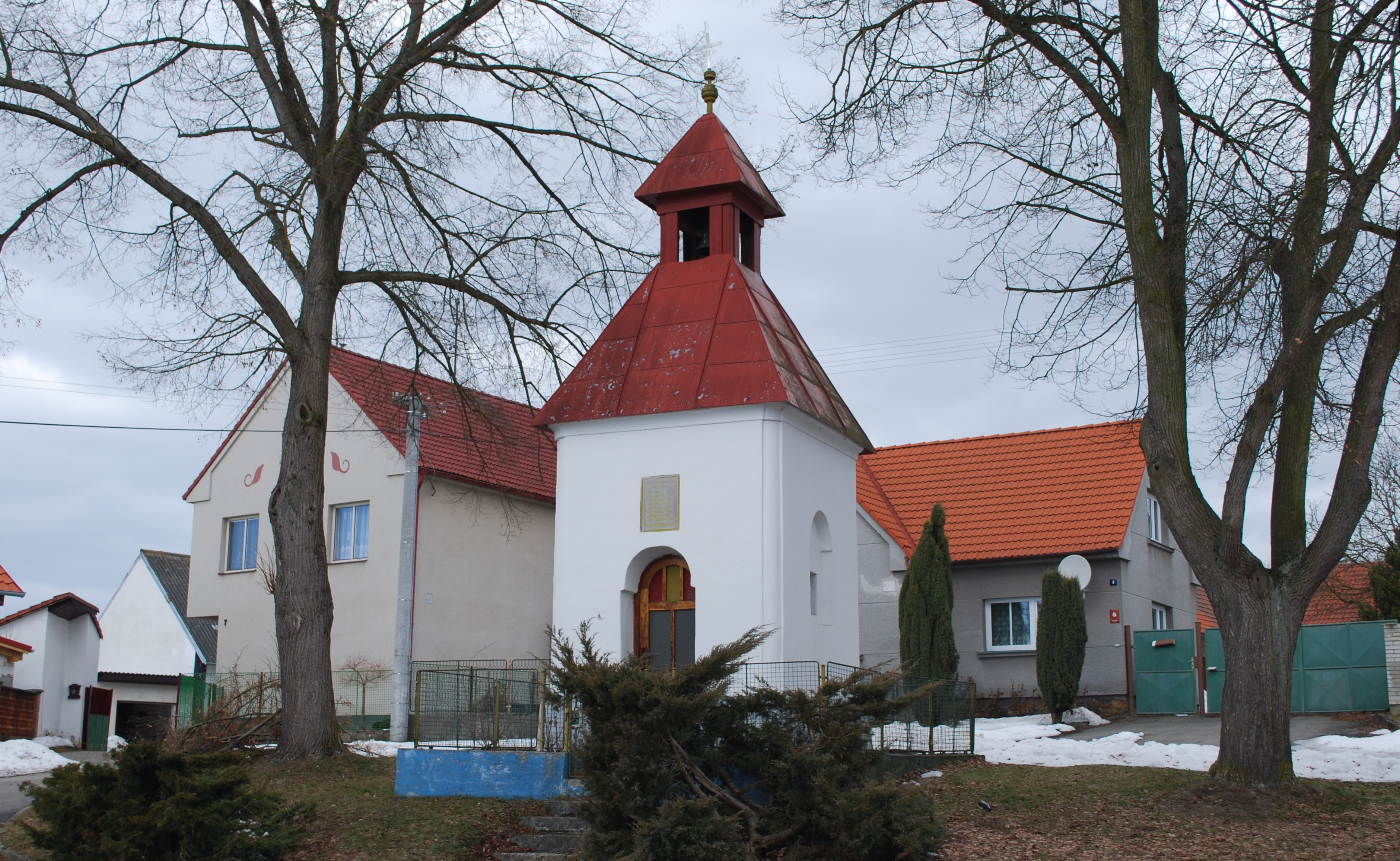 Staré Sedlo village, part of Stádlec village in Tábor District, Czech Republic. This photograph was taken within the scope of the 'Czech Municipalities Photographs' grant.